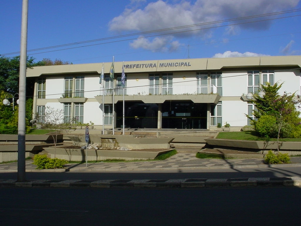 Almirante Tamandaré City Hall